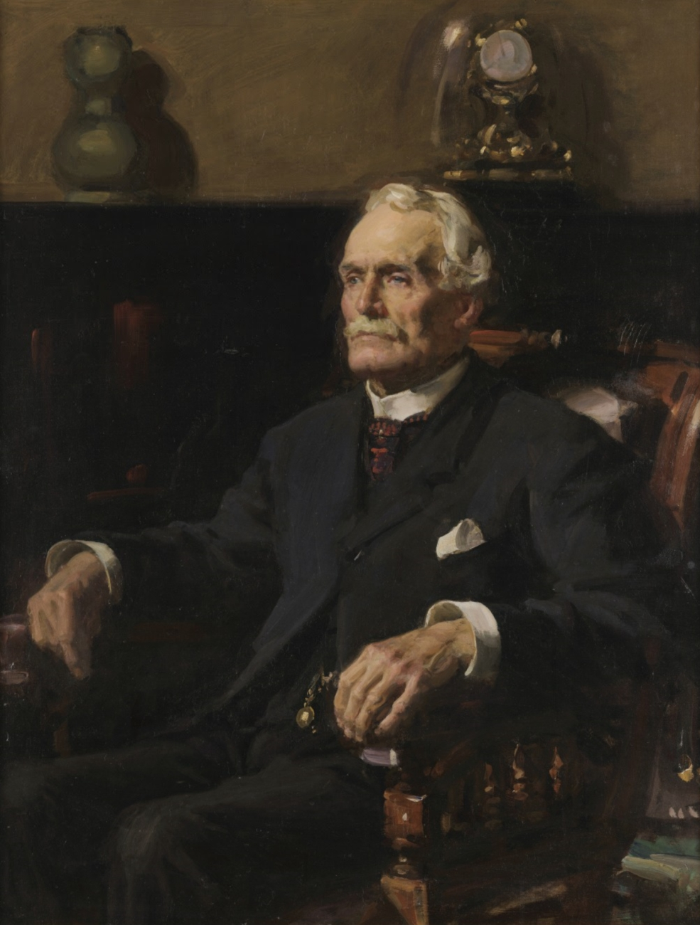 Portrait of H. C. A. Harrison, oil on canvas, 1340 x 1085 x 80 mm.